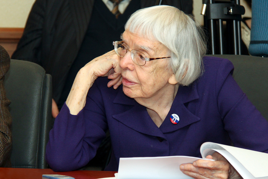 Lyudmila Alexeyeva (born July 20, 1927) is a Russian historian, human rights activist and one of the few veterans of the Soviet dissident movement still active in modern Russia.